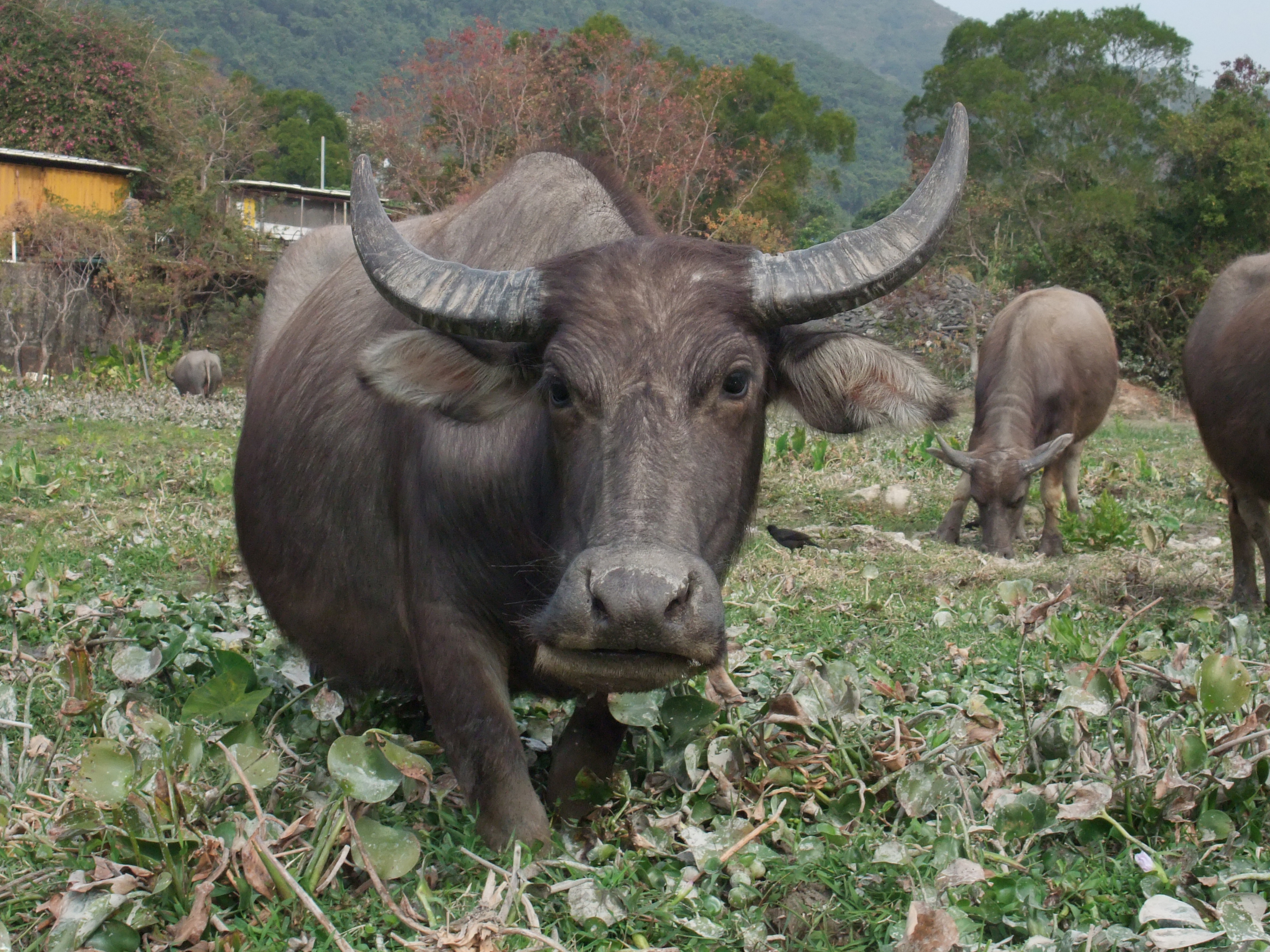 Photo of water buffaloes at Pui O